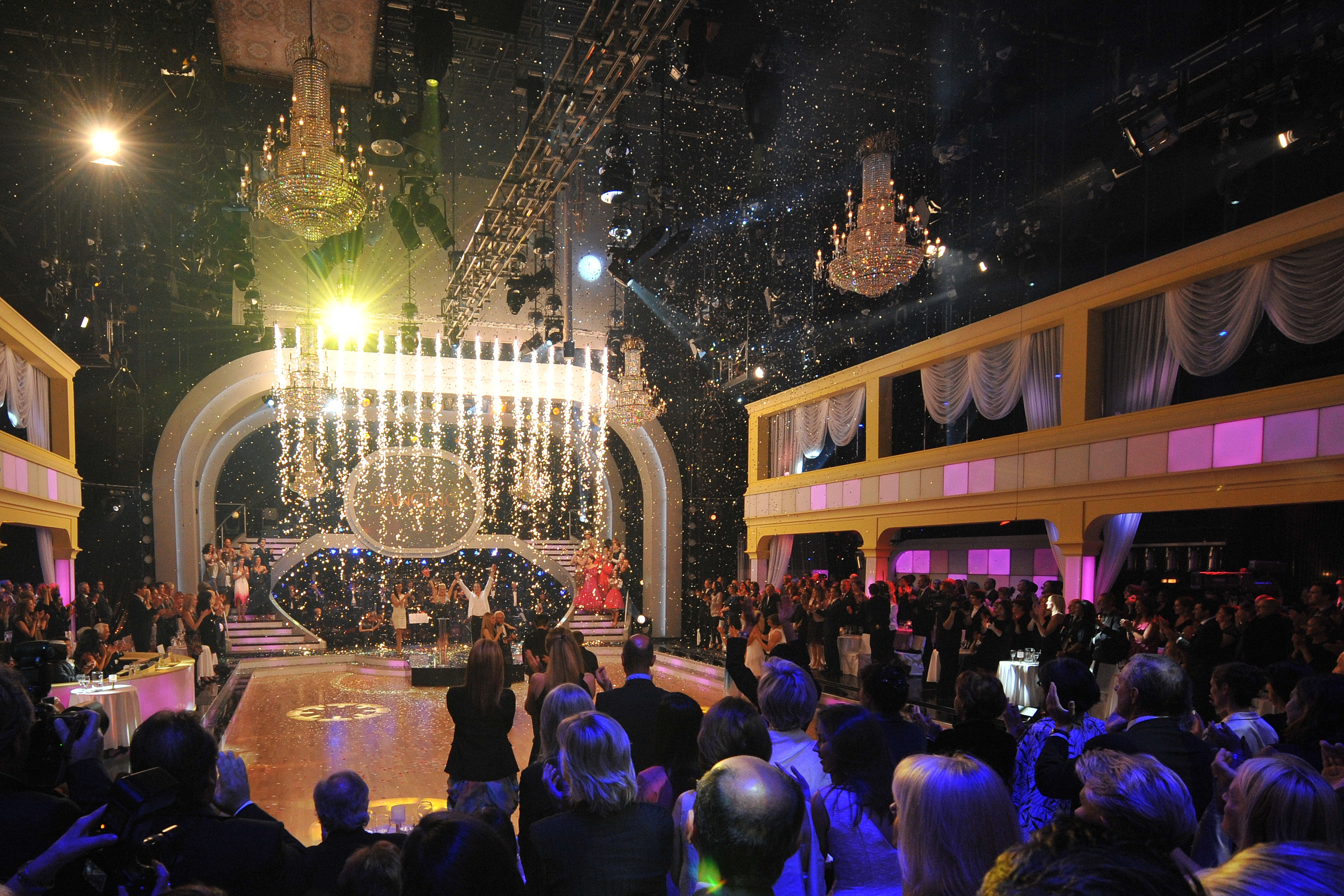 "Dancing Stars" am 24. Mai 2013: Ballroom